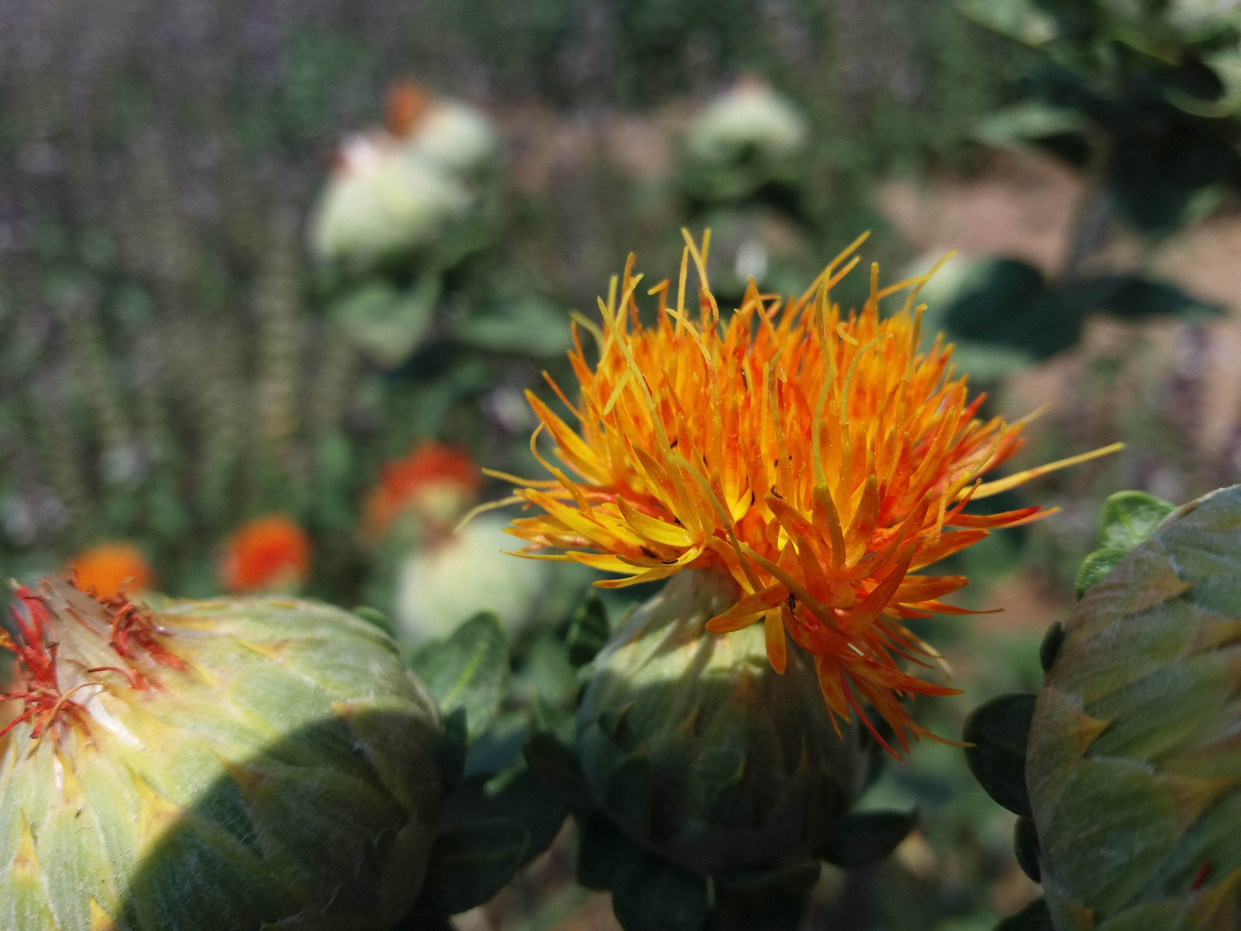 گلرنگ در روستای شنگل آباد